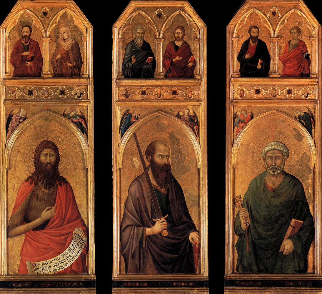 Three panels from the Santa Croce Altar